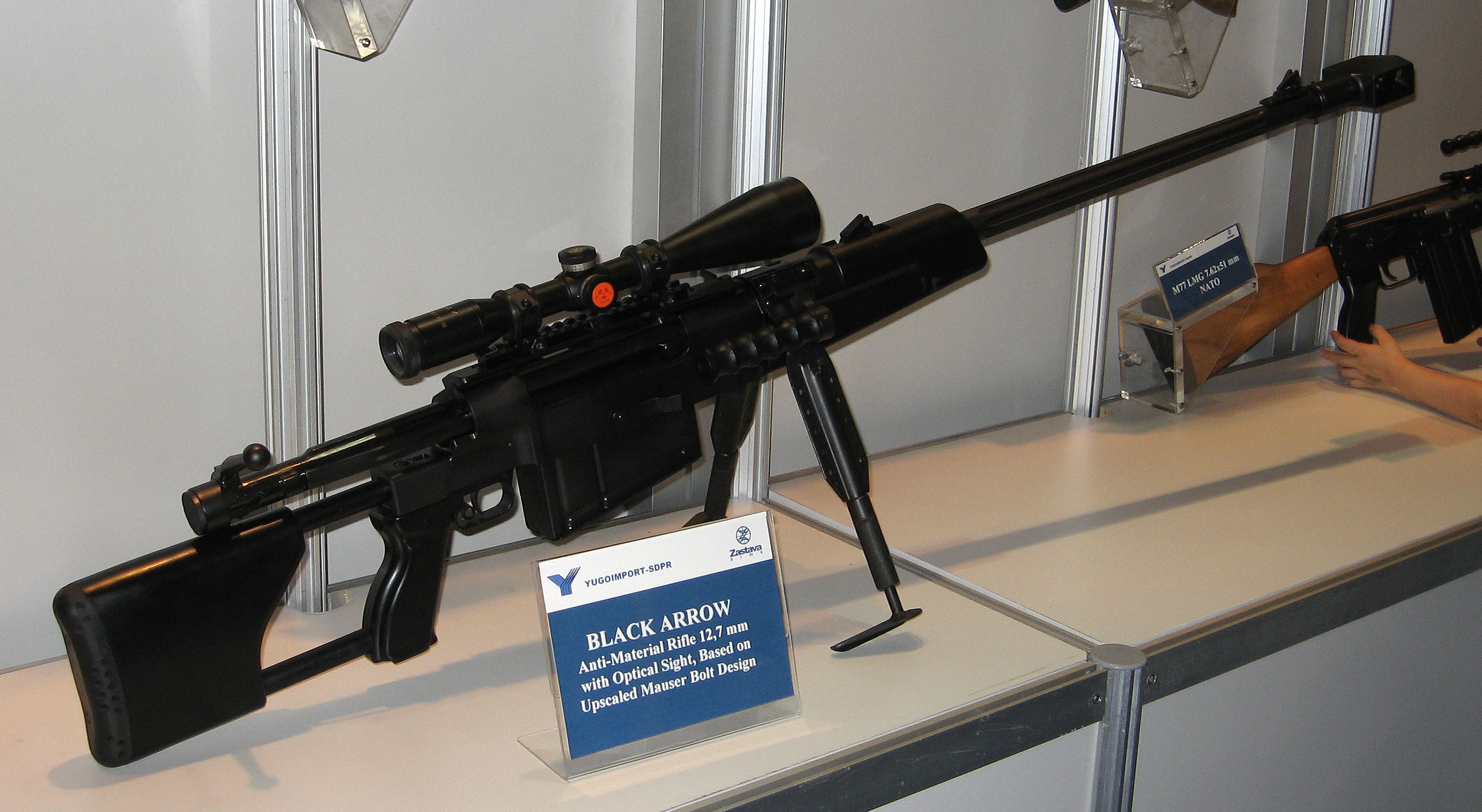 Serbian sniper rifle Zastava M-93 Black Arrow, 12.7 mm.